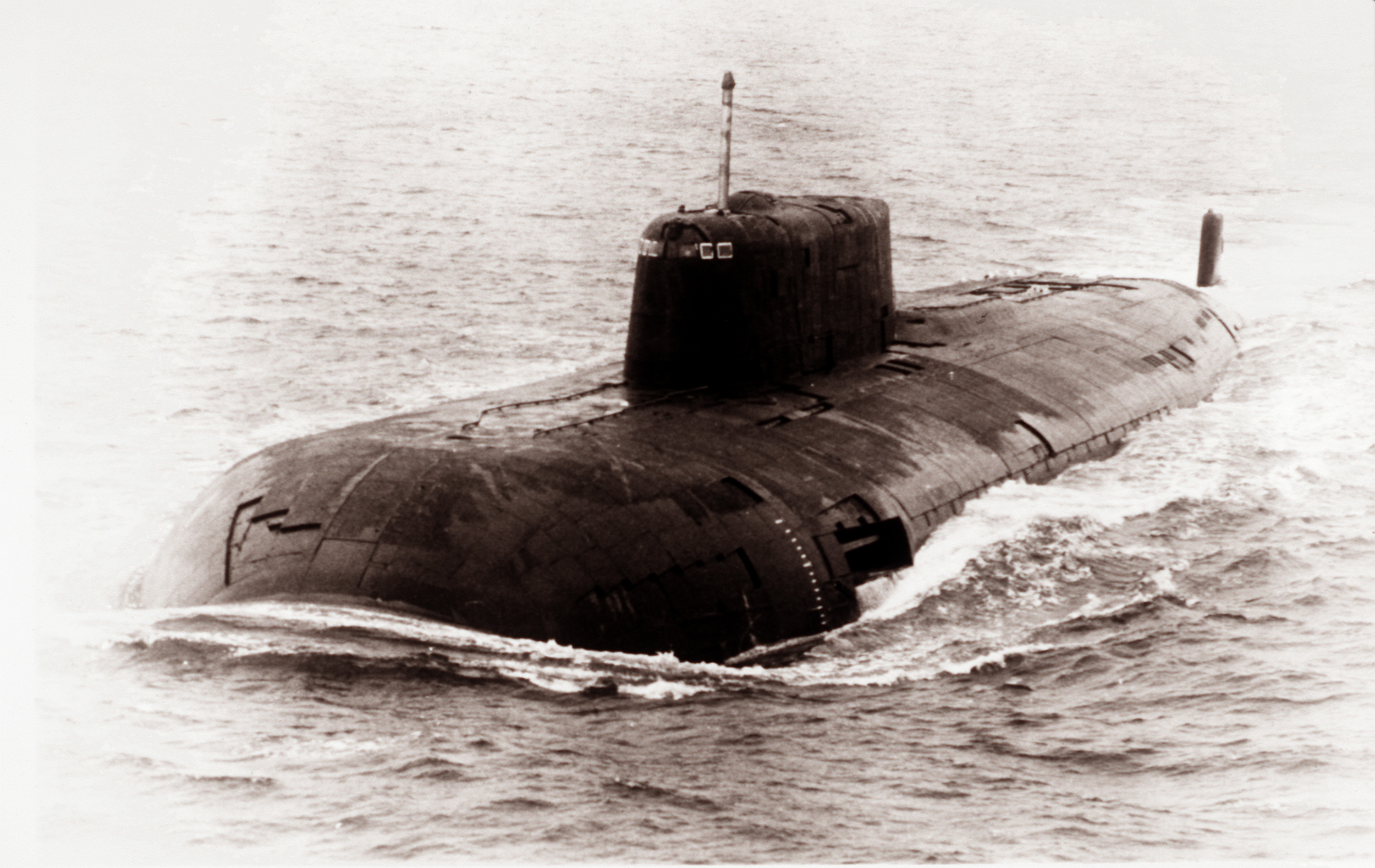 A port bow view of a Soviet Oscar-I Class nuclear-powered cruise missile attack submarine underway. Each Oscar sub is equipped with 24 SS-N-19 550-kilometer-range missiles.